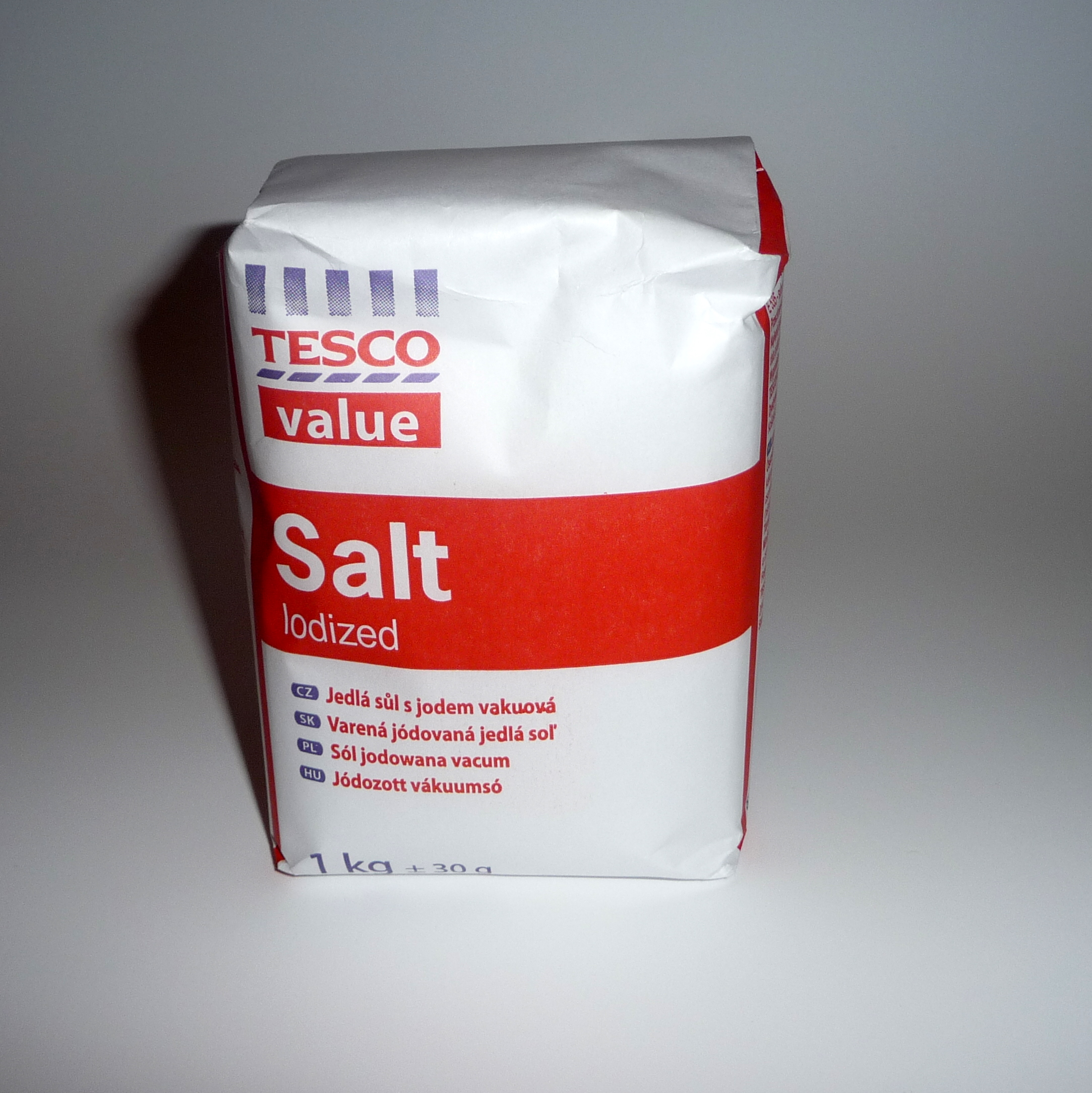 Salt Tesco